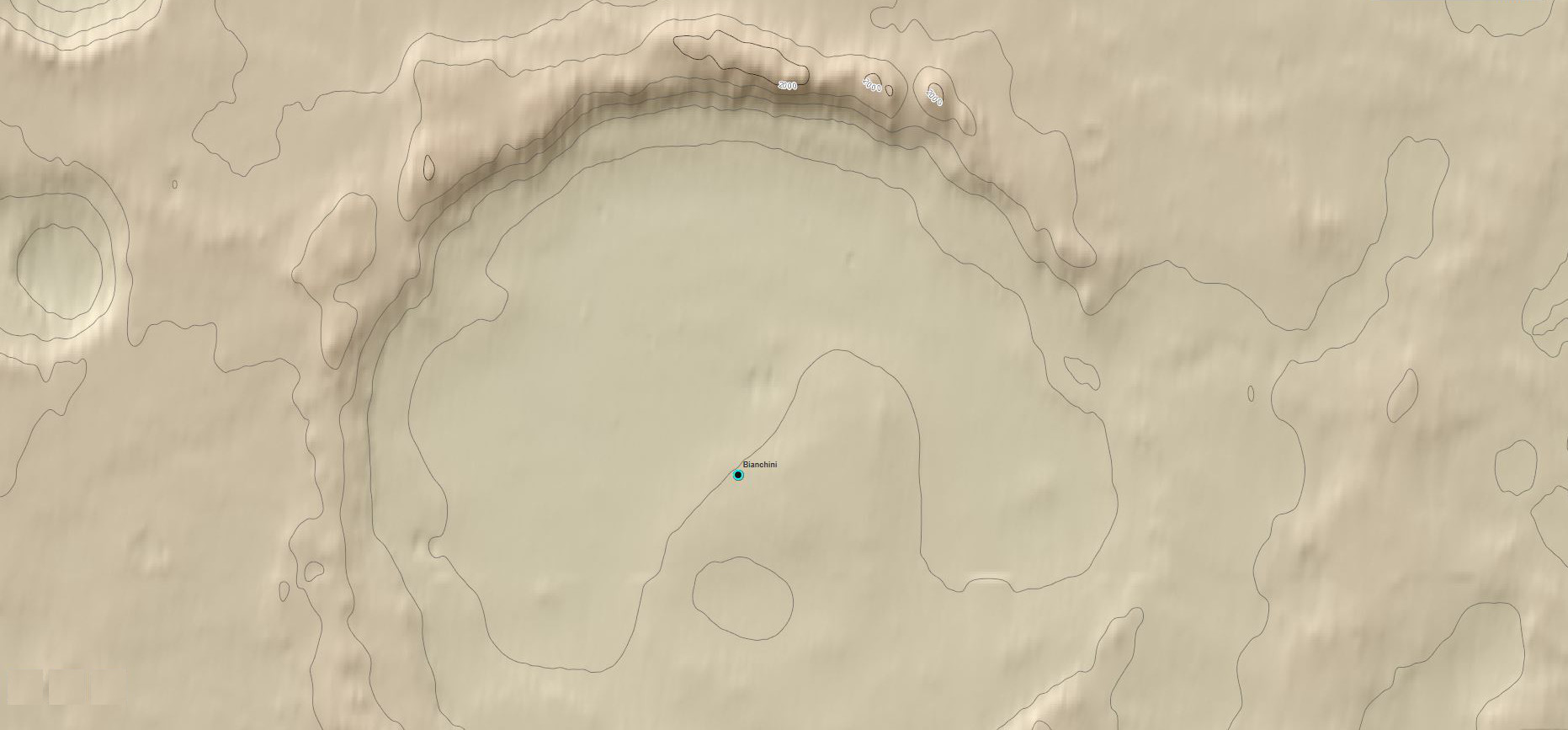 A topographic representation of Bianchini crater.